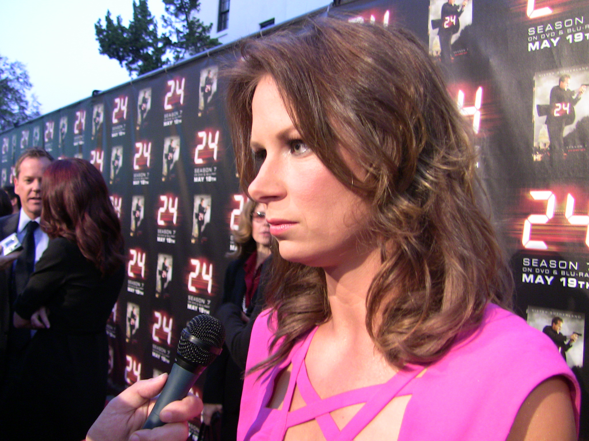 Mary Lynn Rajskub at the 24 Finale Screening - Wadsworth Theater, Los Angeles, Calif. - May 12, 2009